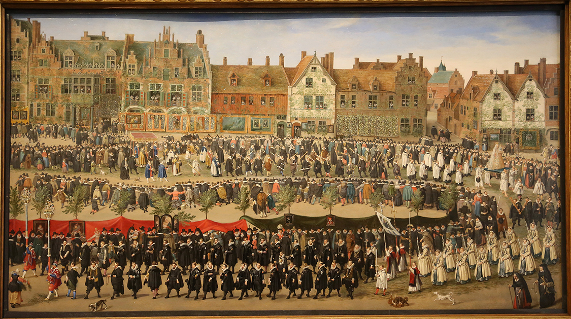 Procession of the Virgins at the Sablon (?) in Brussels. Painting by Antoon Sallaert in the Galleria Sabauda. Monogrammed A S. Oil on panel, 58 x 91 cm, inv. 223.